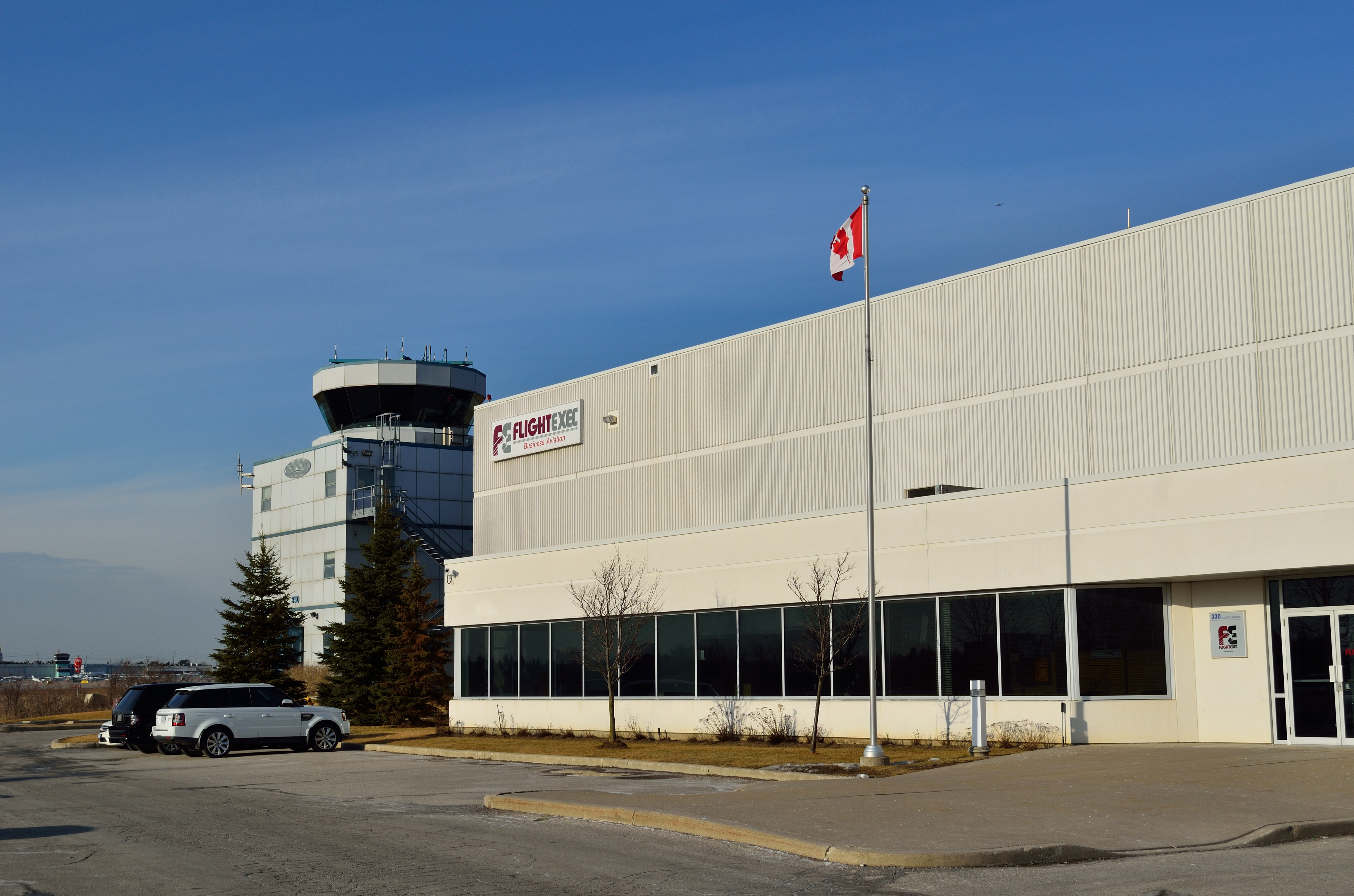 Buttonville Airport